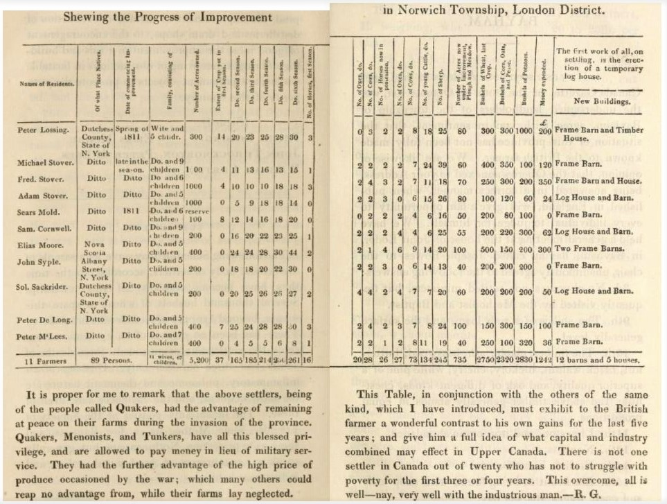 derivative work consisting of images cropped, enhanced and assembled, showing tabulated data from Robert Gourlay's Statistical Account of Upper Canada, published in England in 1822